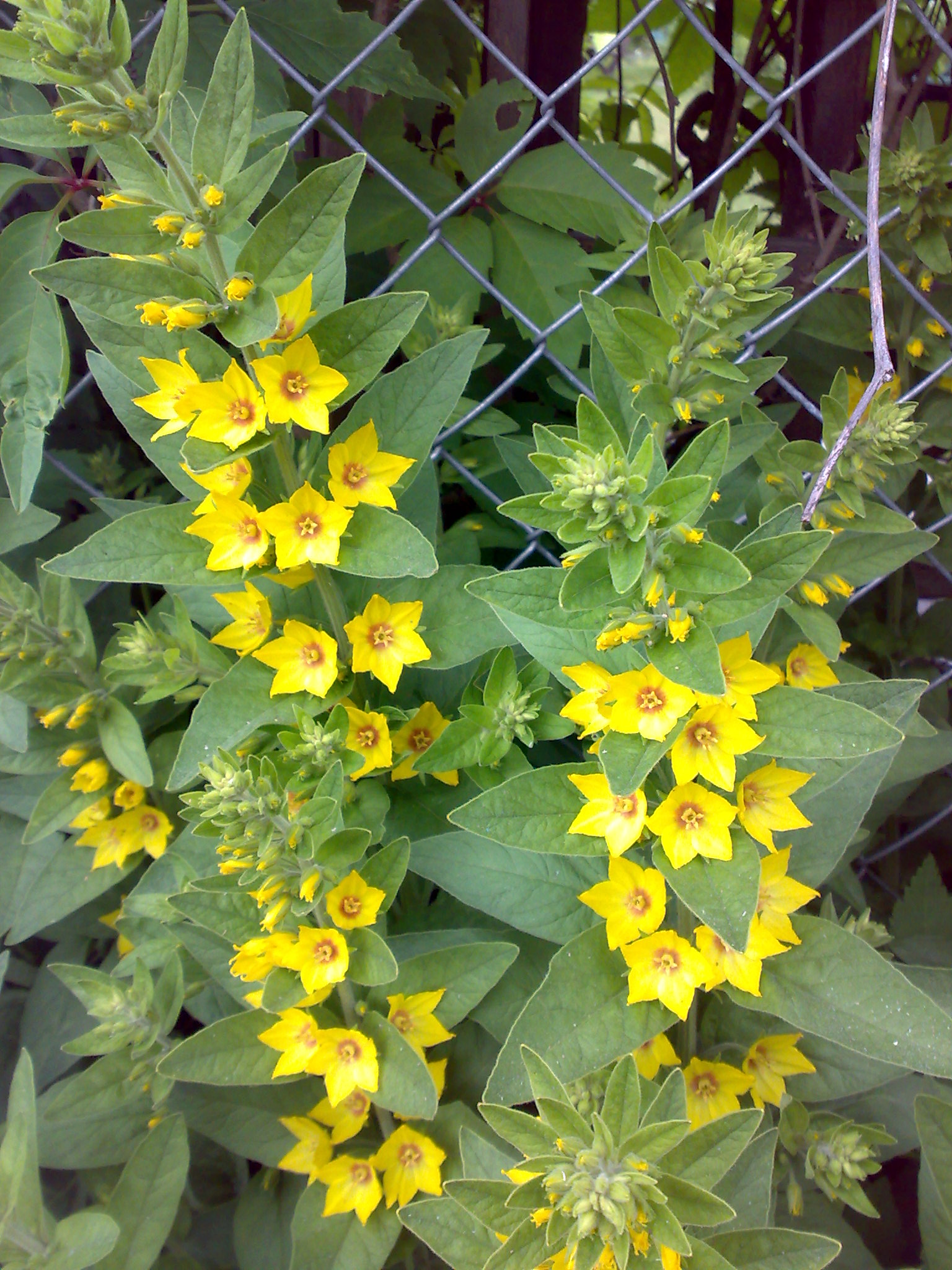 Lysimachia punctataNorsk bokmål: fagerfredløs Norway